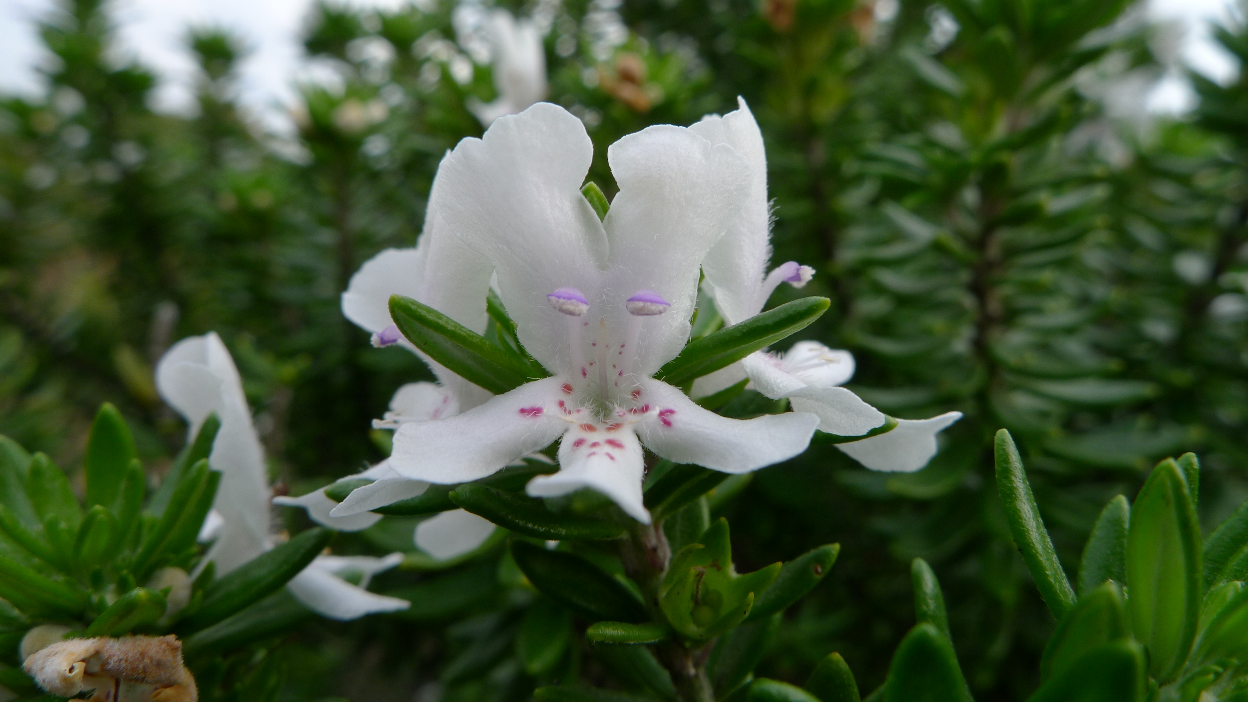 Looking very much off this like it is from off-world, Westringia fruticosa. Botany Bay National Park, Cape Solander, NSW Australia, August 2011.